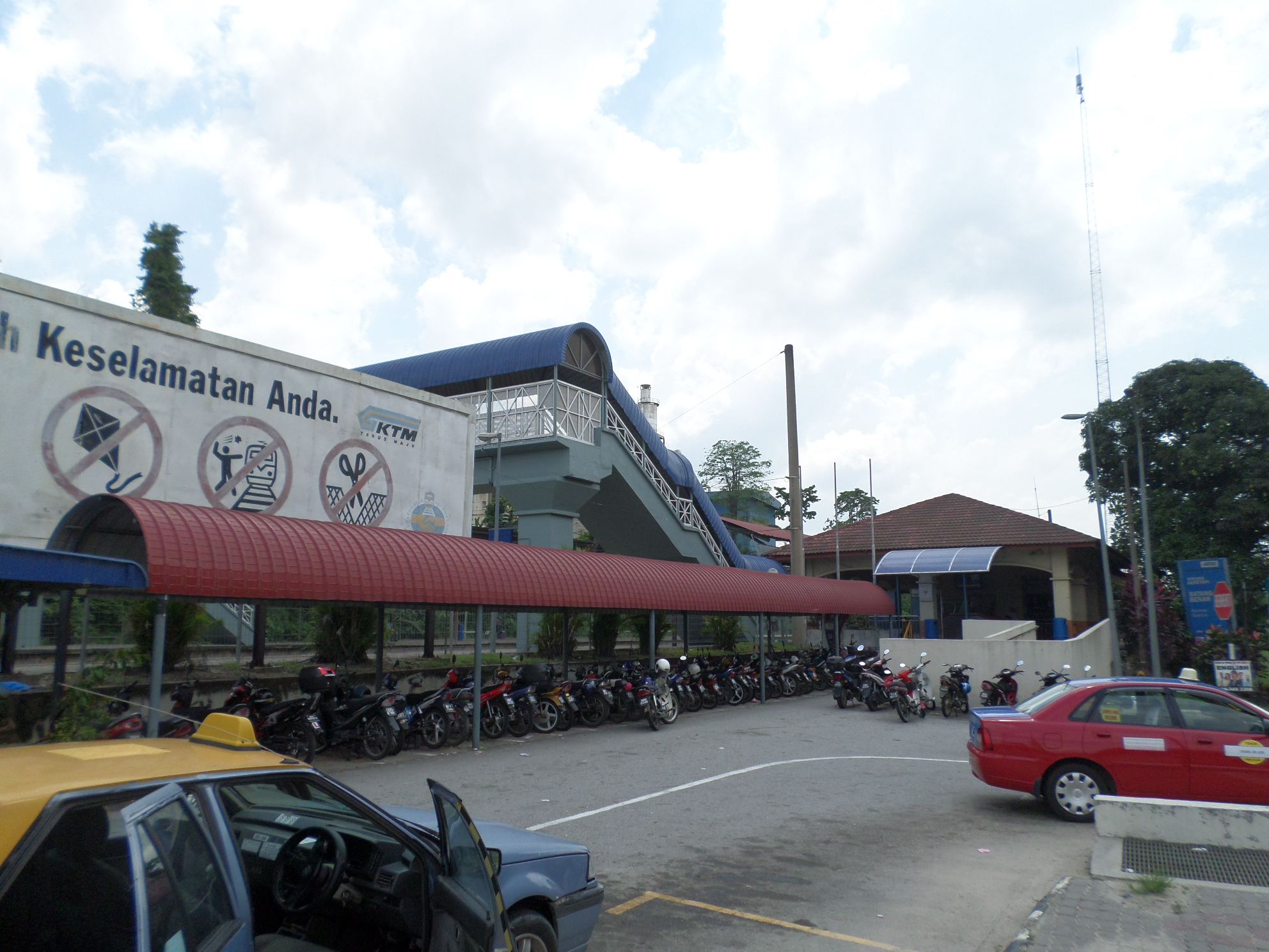 Batang Benar Railway Station, Batang Benar, Seremban, Negeri Sembilan, MalaysiaBahasa Melayu: Stesen Keretapi Batang Benar, Batang Benar, Seremban, Negeri Sembilan, Malaysia